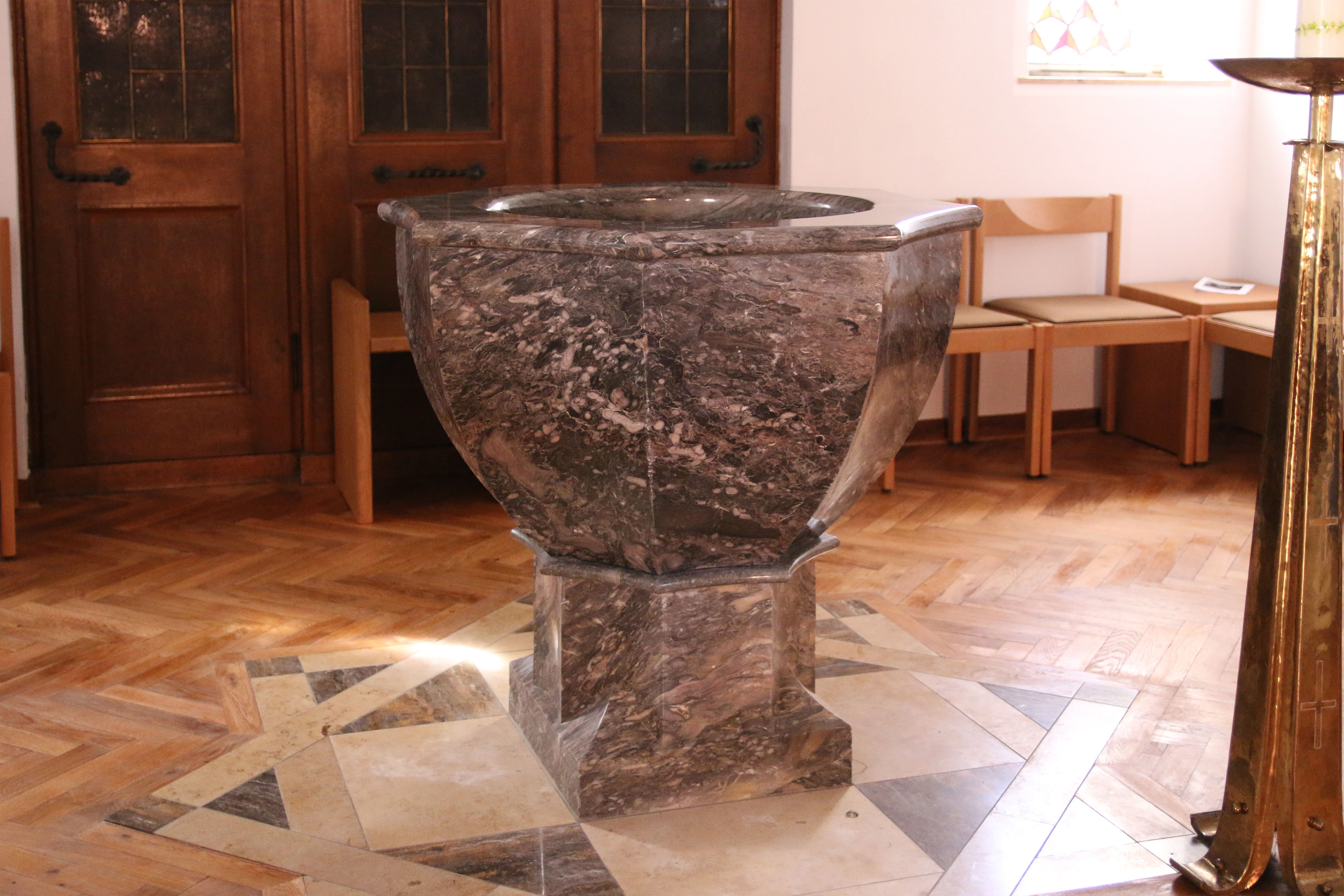 St. Beatus church in Koblenz